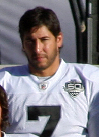 J. P. Losman, a player on the Oakland Raiders American football team.